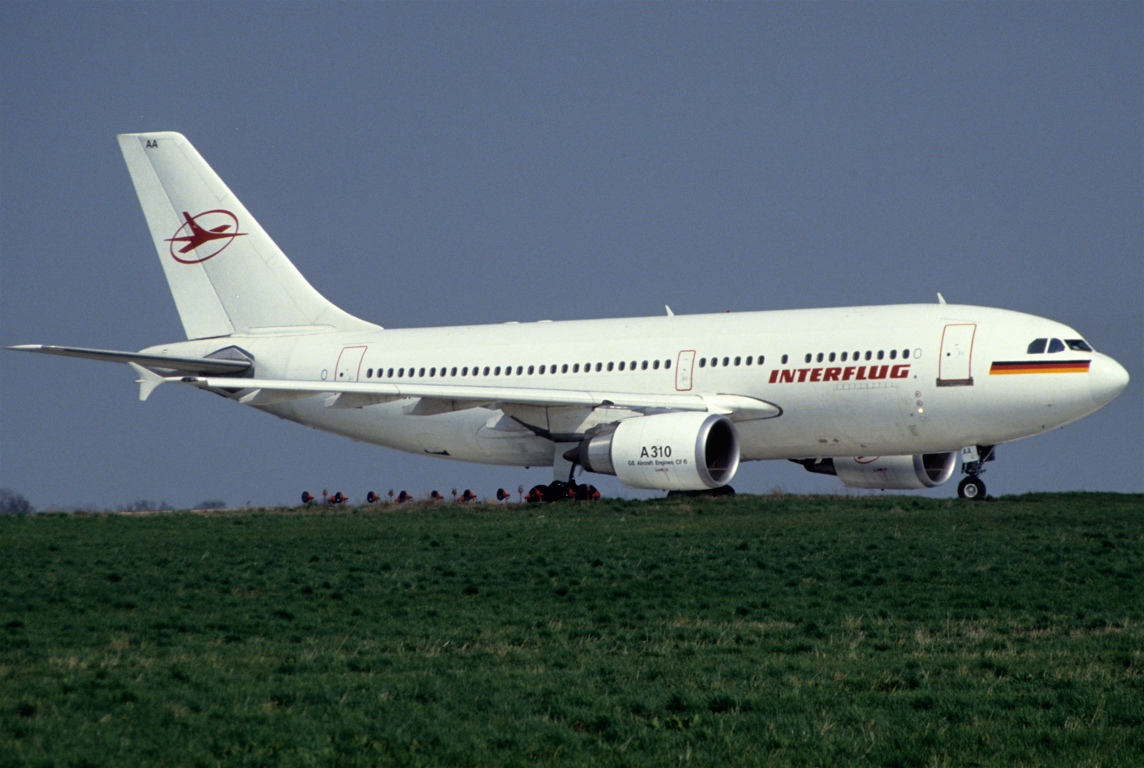 Interflug was the national airline of the GDR - Airbus managed to sale three examples to the carrier of East Germany. One major motive to buy the airliner was the - bizarre - fact that the Ilyushin 62 lacked the range of flying to Cuba non-stop. Some passengers - or rather, refugees (Republikflüchtlinge in German), took the opportunity and escaped to the free world - while the Ilyushins were refueled in Gander, Canada...In other words - a western-built airliner was supposed to prevent more successful escapes from the socialist dictatorship... It is also a paradoxical fact that all three Airbus A310s operated by Interflug, like D-AOAA above, entered service with Luftwaffe one year after Germany's reunification... The Airbus pictured took its first flight on April 5, 1989 and entered service with Inteflug in June that year. In October 1990 the Airbus received the registration of the unified Germany, beginning with the single-digit D-...Since August 1991 the long-range Airbus has been flying for Luftwaffe as 10+21... A picture of the same aircraft 18 years later